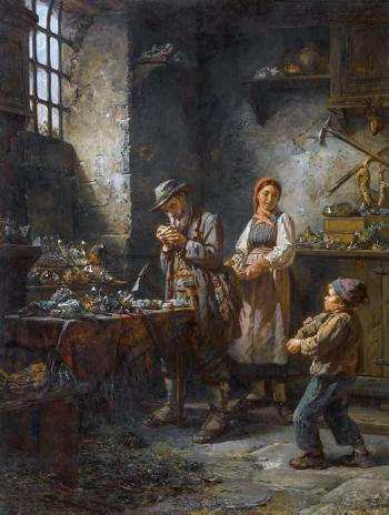 Thought to depict the Bonn mineralogist Gerhard vom Rath (1830-1888), examining mineral specimens from Lengenbach in a nearby house in Binn, Switzerland